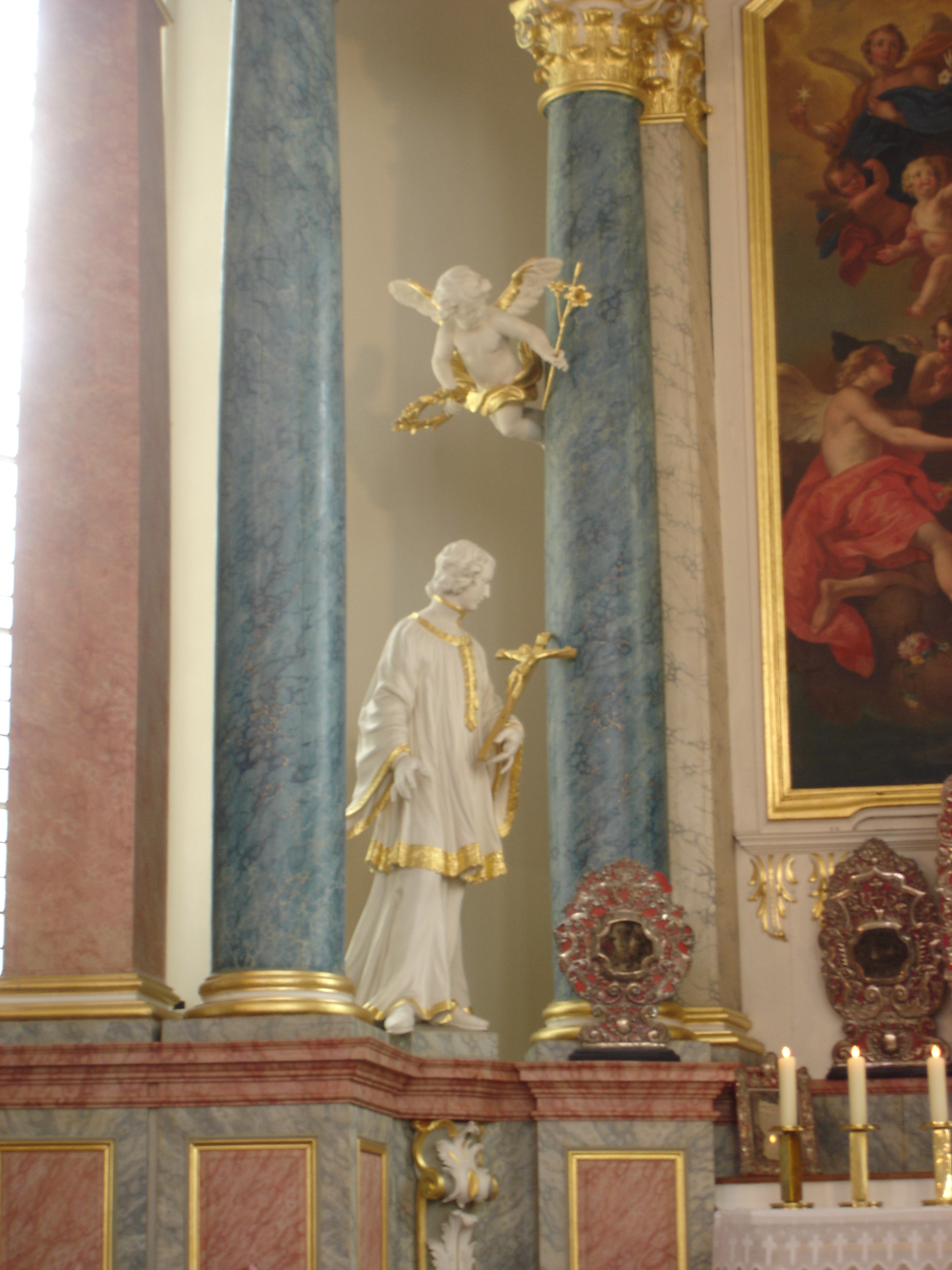 Gymnasial church in Meppen, Aloysius Gonzaga